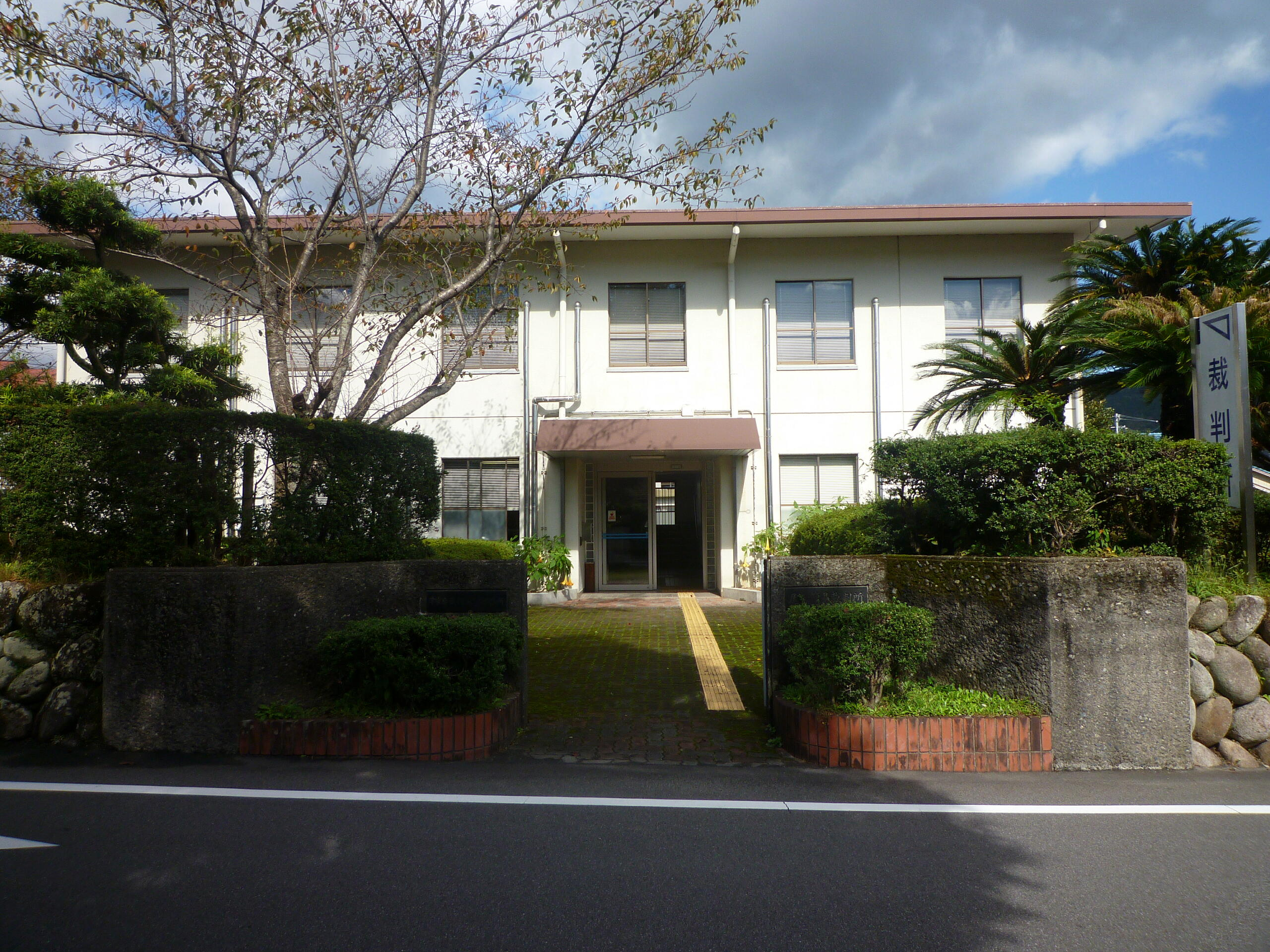 The "Owase Summary Court" and the "Tsu Family Court Owase Local Office" in Owase, Mie, Japan.